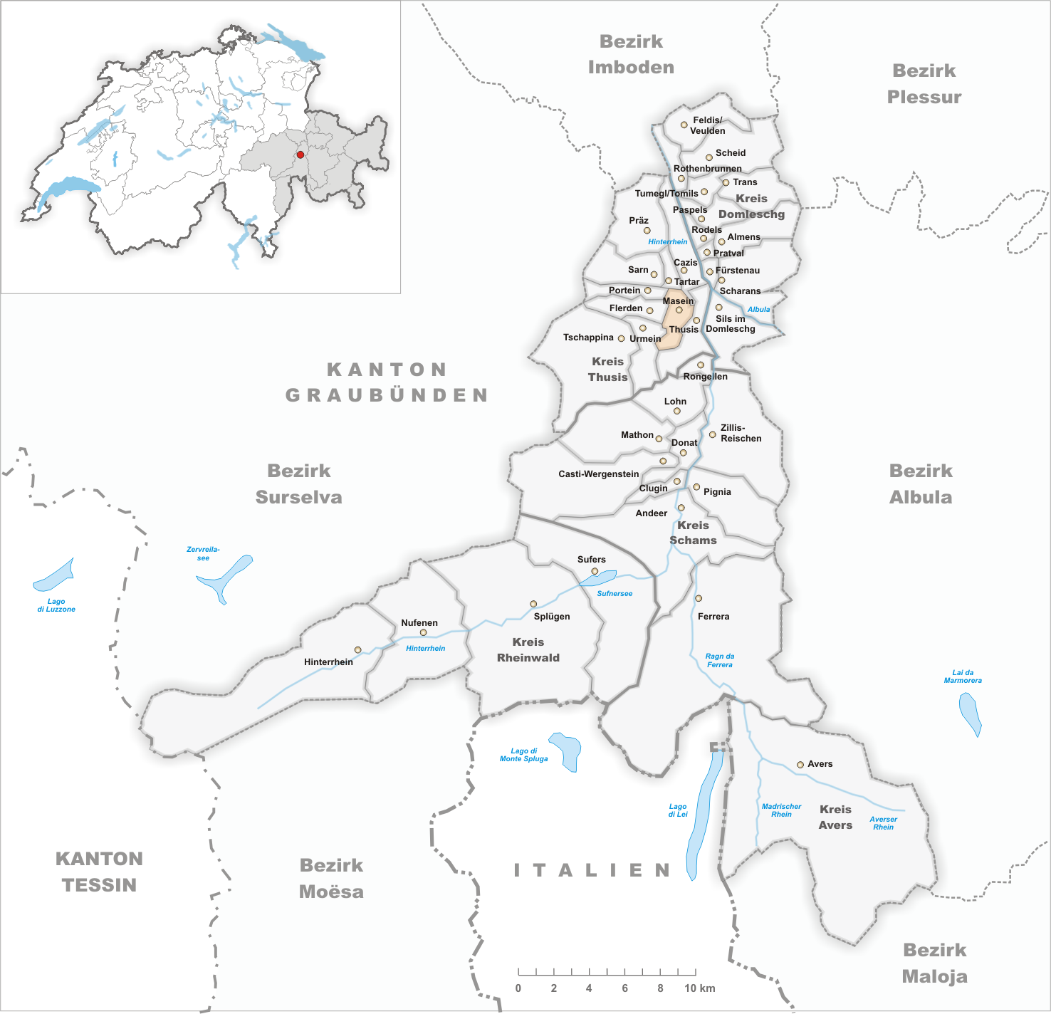 Municipality Masein